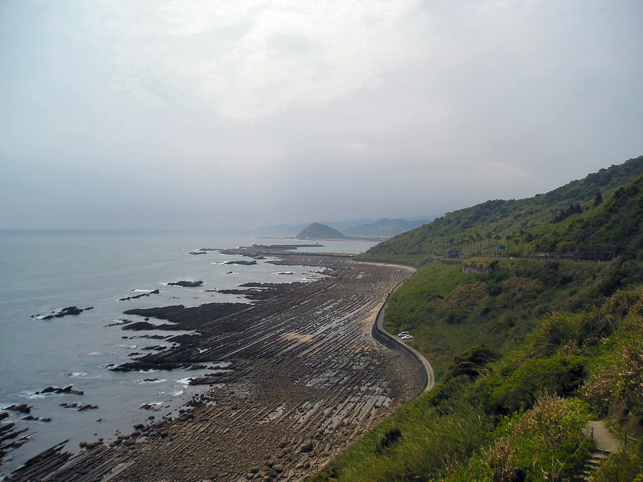 The Nichinan Coastline seen from Horiki Pass, Miyazaki, Japan